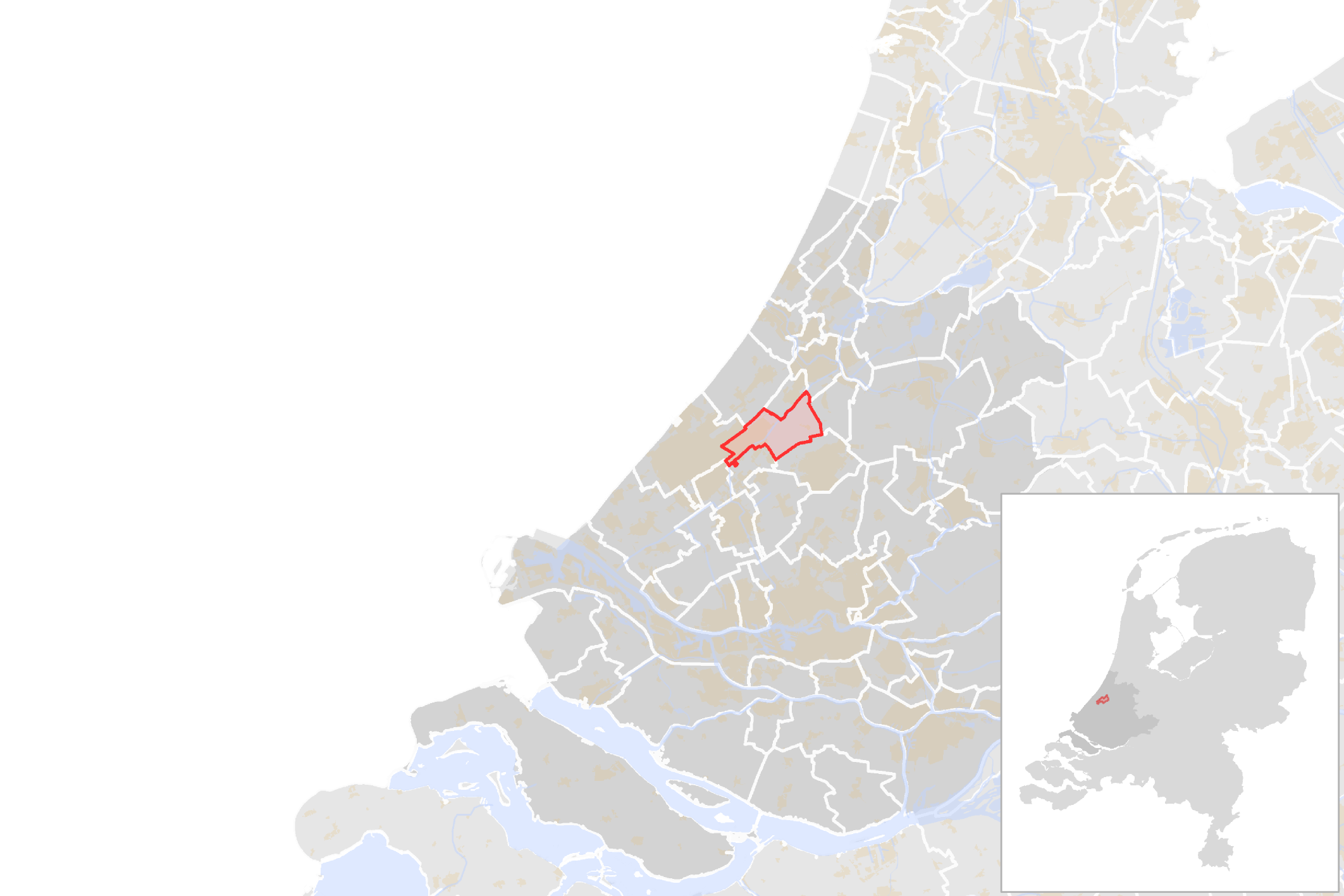 Locator map showing municipality boundary of one of the 390 Dutch municipalities (as of 2016)